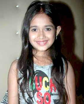 Jannat Zubair Rahmani at "Warning" film press meet